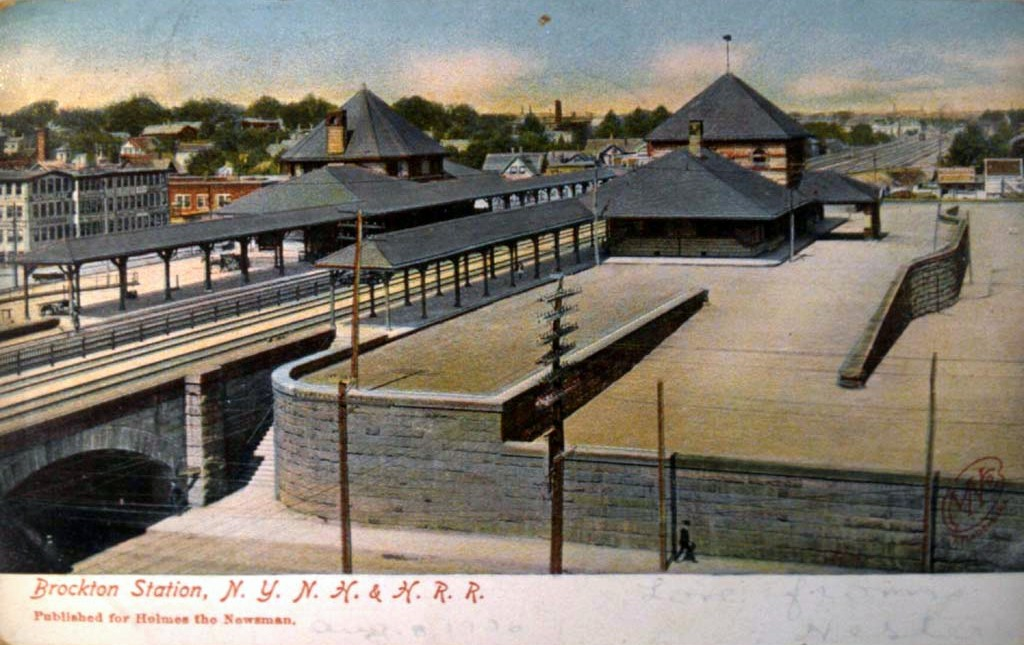 Brockton, Massachusetts train station on a 1906-postmarked postcard. This view looks approximately northwest; Centre Street is in the foreground.